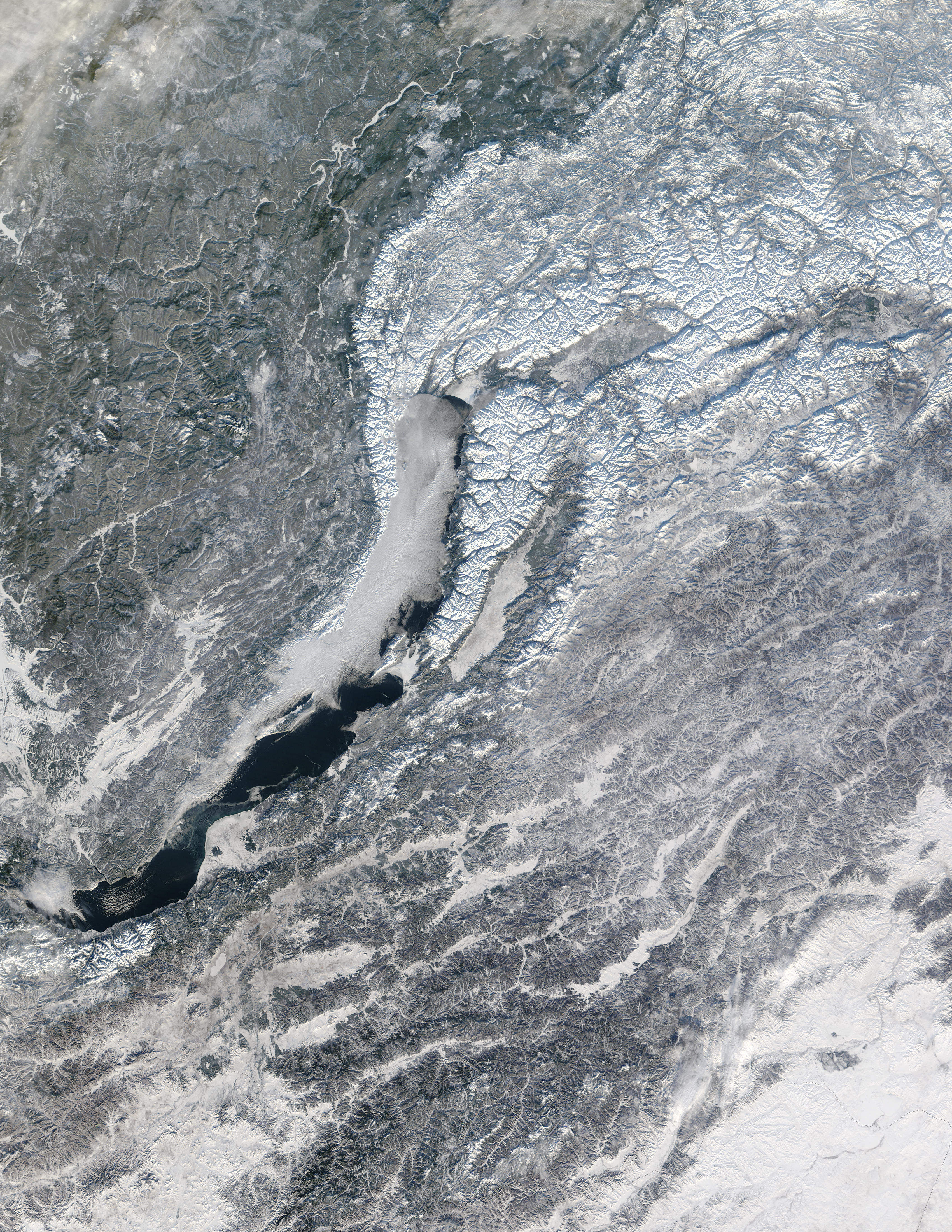 Lake Baikal. Lake ice is beginning to form at the northernmost end of the lake and in a bay at the middle Sensor Terra/MODIS Visible Earth v1 ID 26229